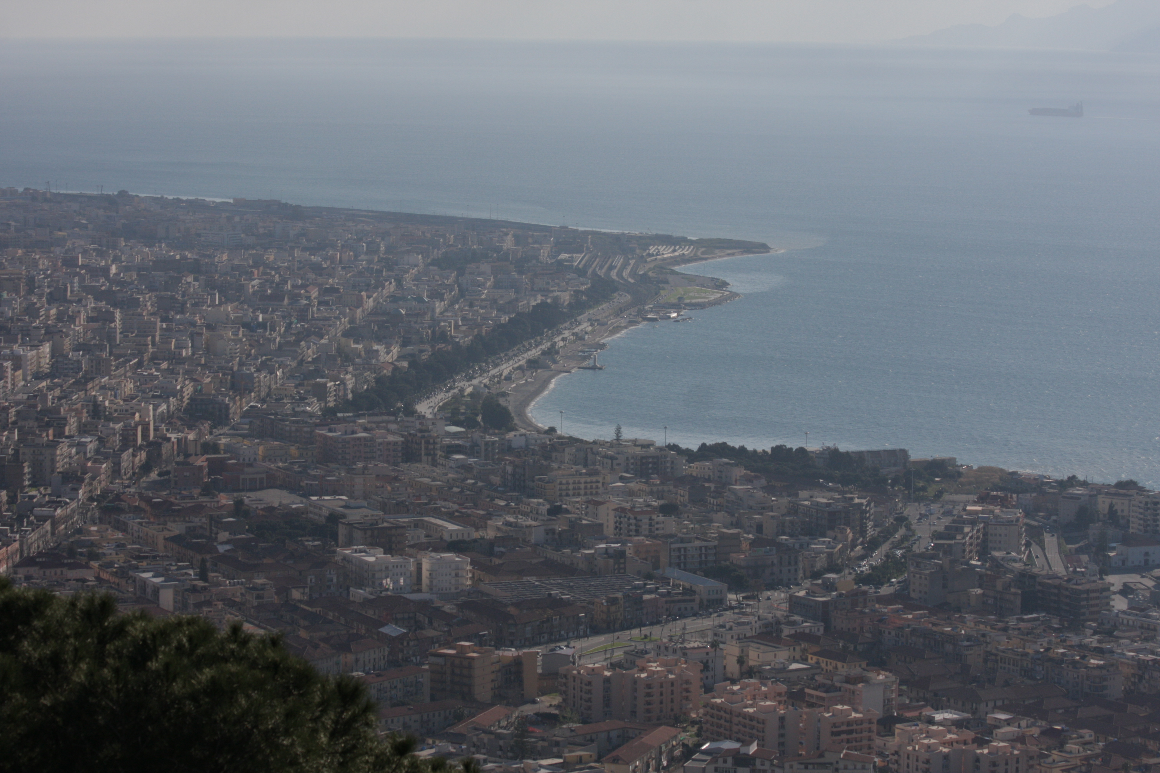 view of the city from the hill of Pentimele